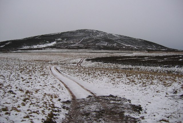 Dirrington Great Law. A conical hill, rising steeply from flat moorland. Taken from near Dronsheil, after an ascent.